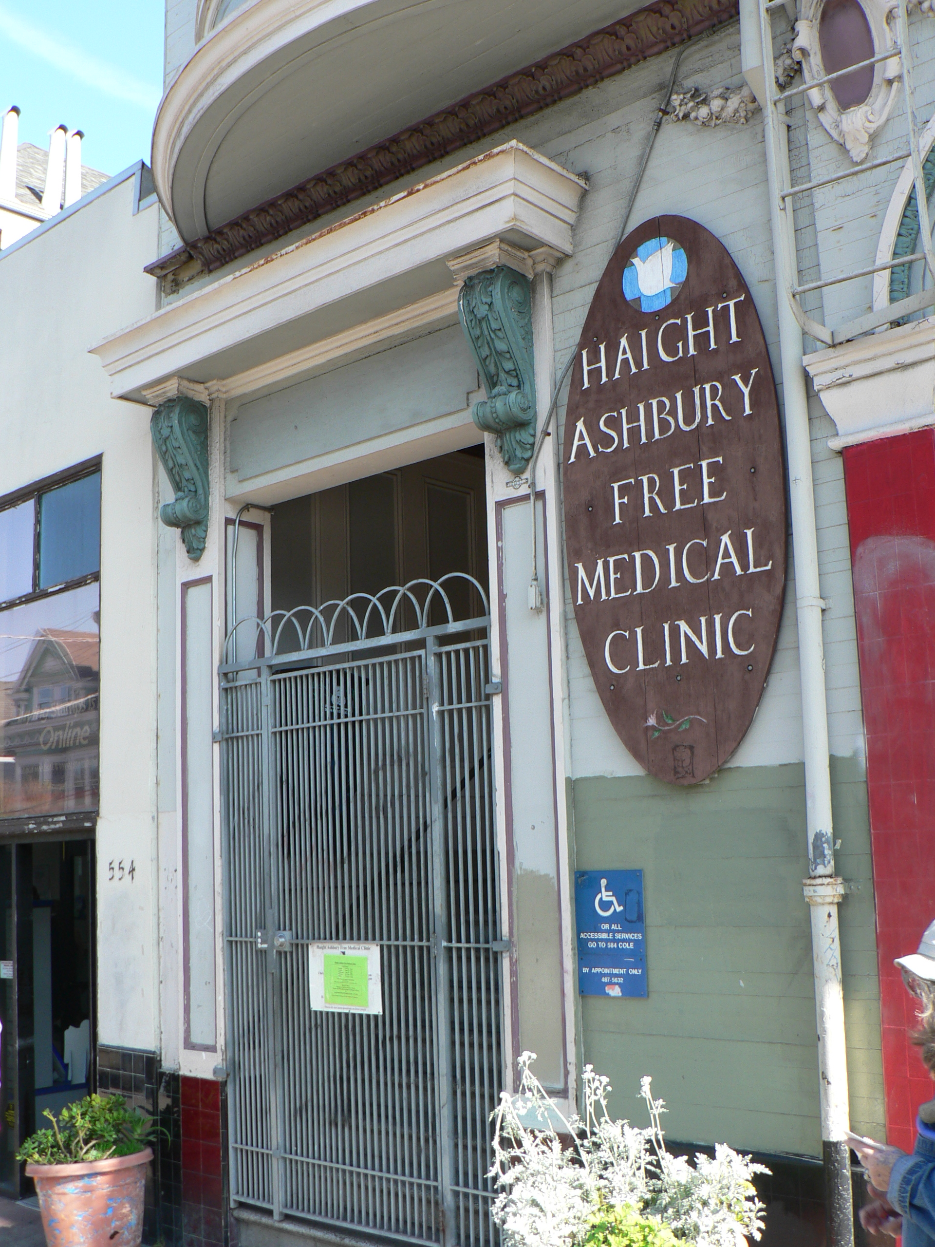 Haight Ashbury Free Medical Clinic